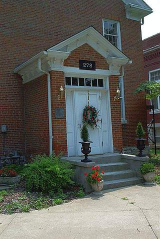 Original chapel entry to Loomis Hall.